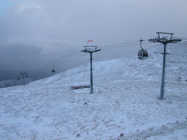 Gondola at Aonach Mor. The top of the gondola at Aonach Mor on a windy day in January